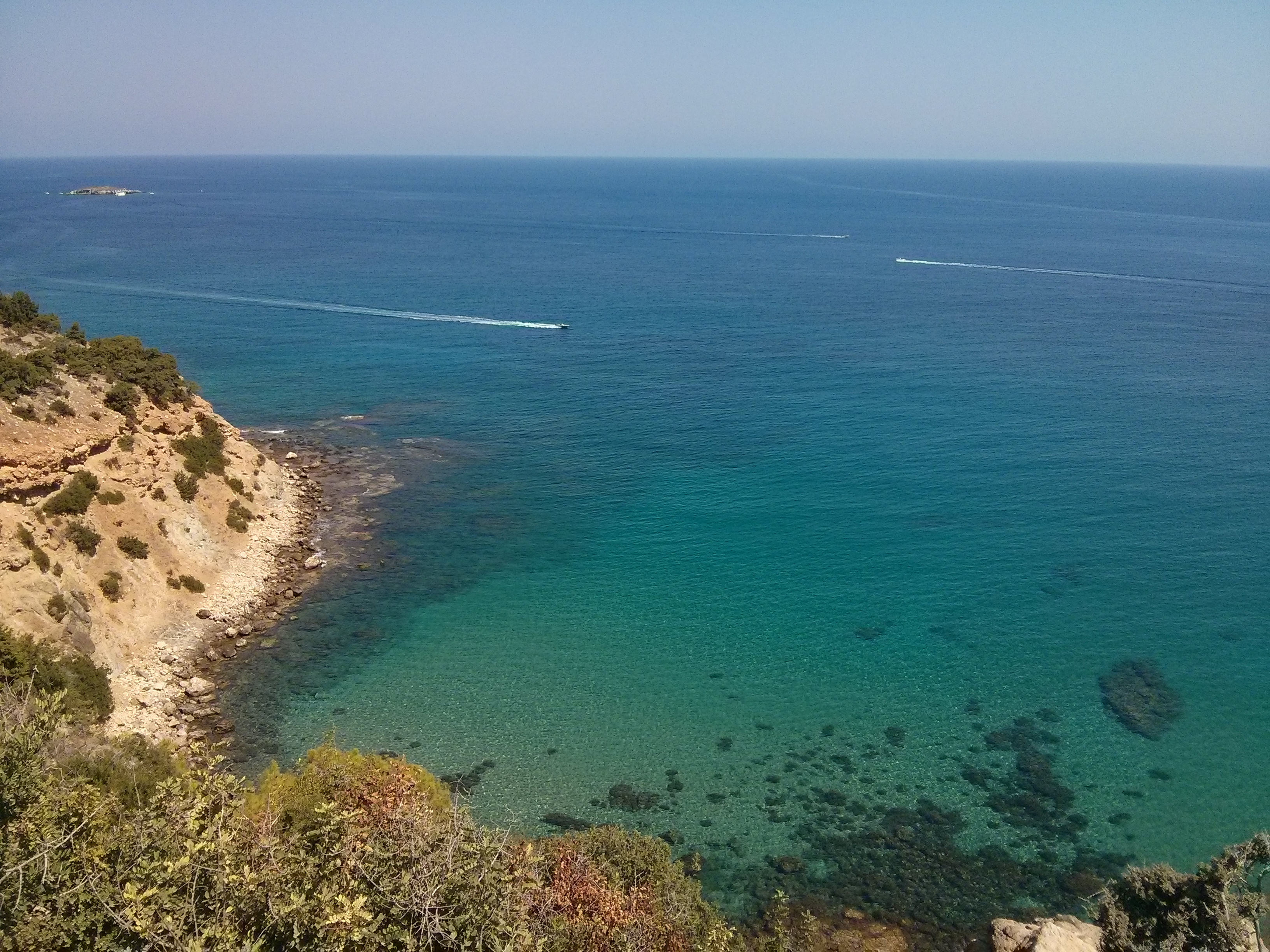 Aphrodite springs view